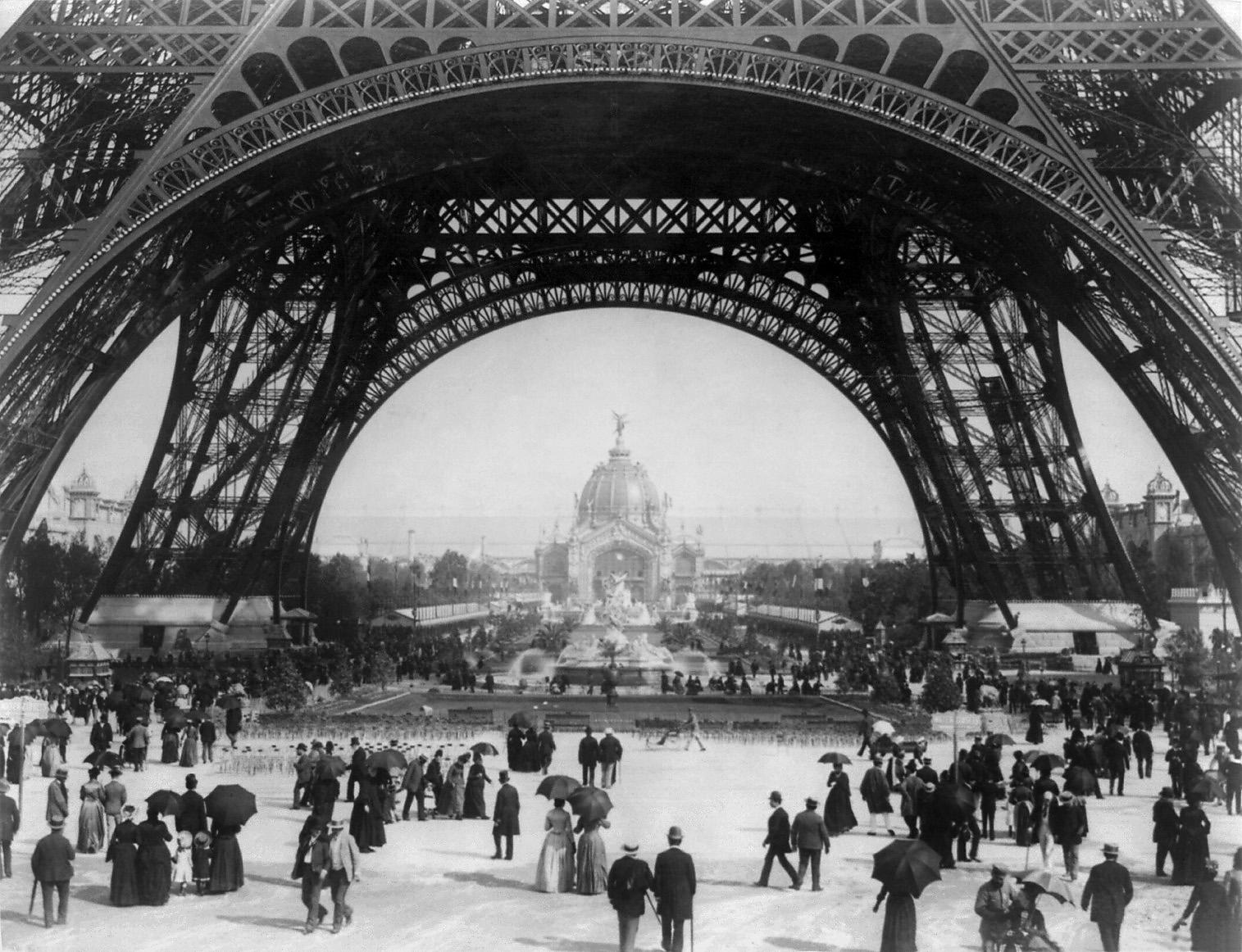 From the Tissandier Collection at the U.S. Library of Congress. More Paris Exposition images | More images from the Tissandier Collection [PD] This picture is in the public domain.